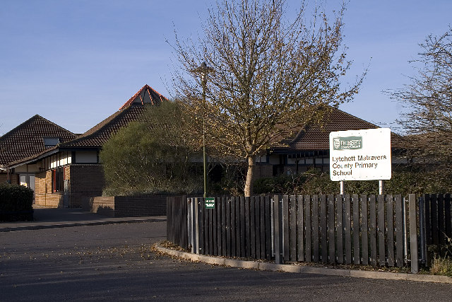 Lytchett Matravers Primary School, Dorset. Originally opened in 1874, the school moved to its present site in 1992. The last Ofsted inspection identified it as a 'very good school'.